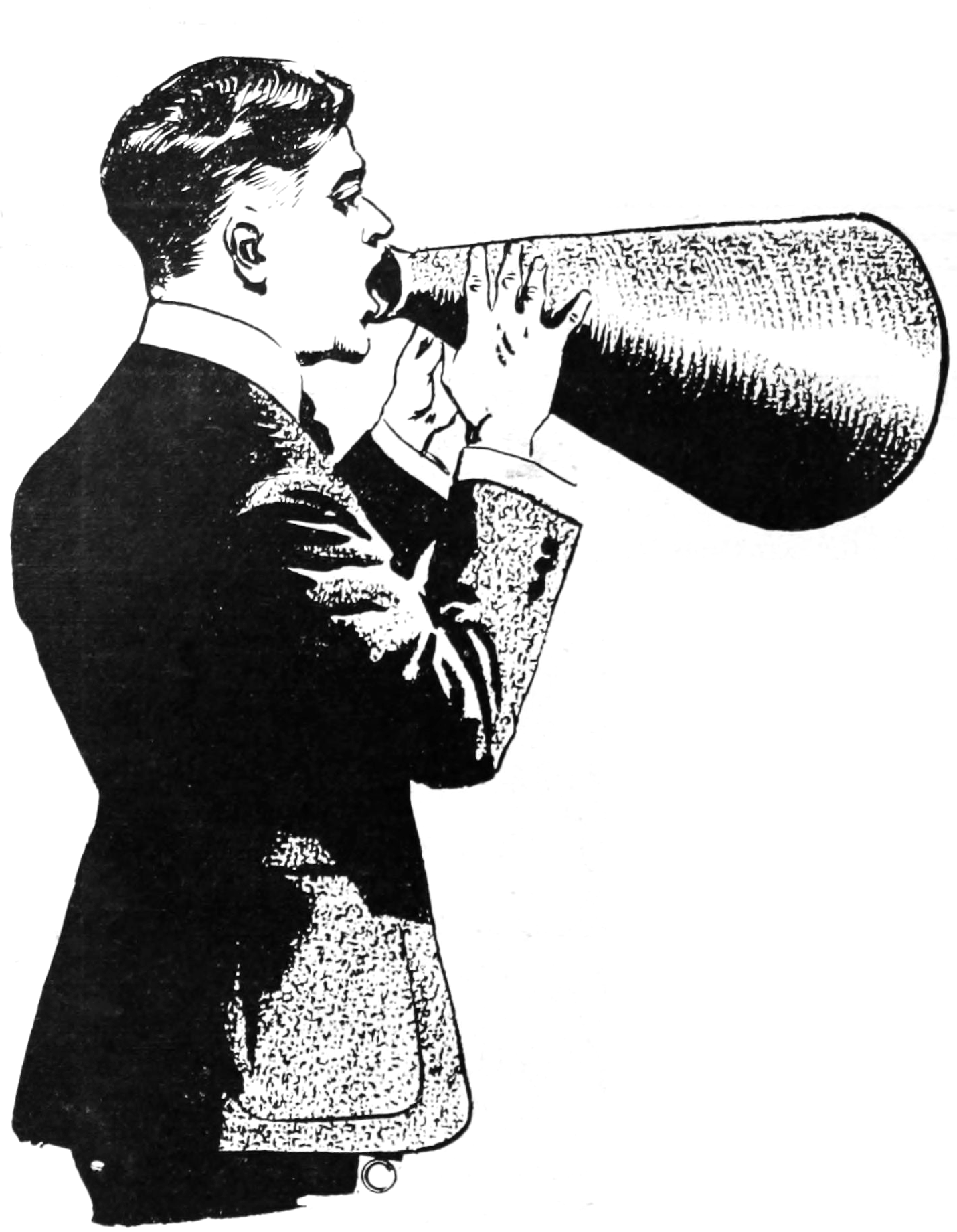 Advertising art of man speaking into megaphone